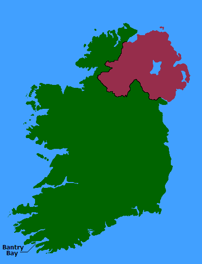 Bantry Bay, County Cork, Ireland.Map created with MSFT Paint.